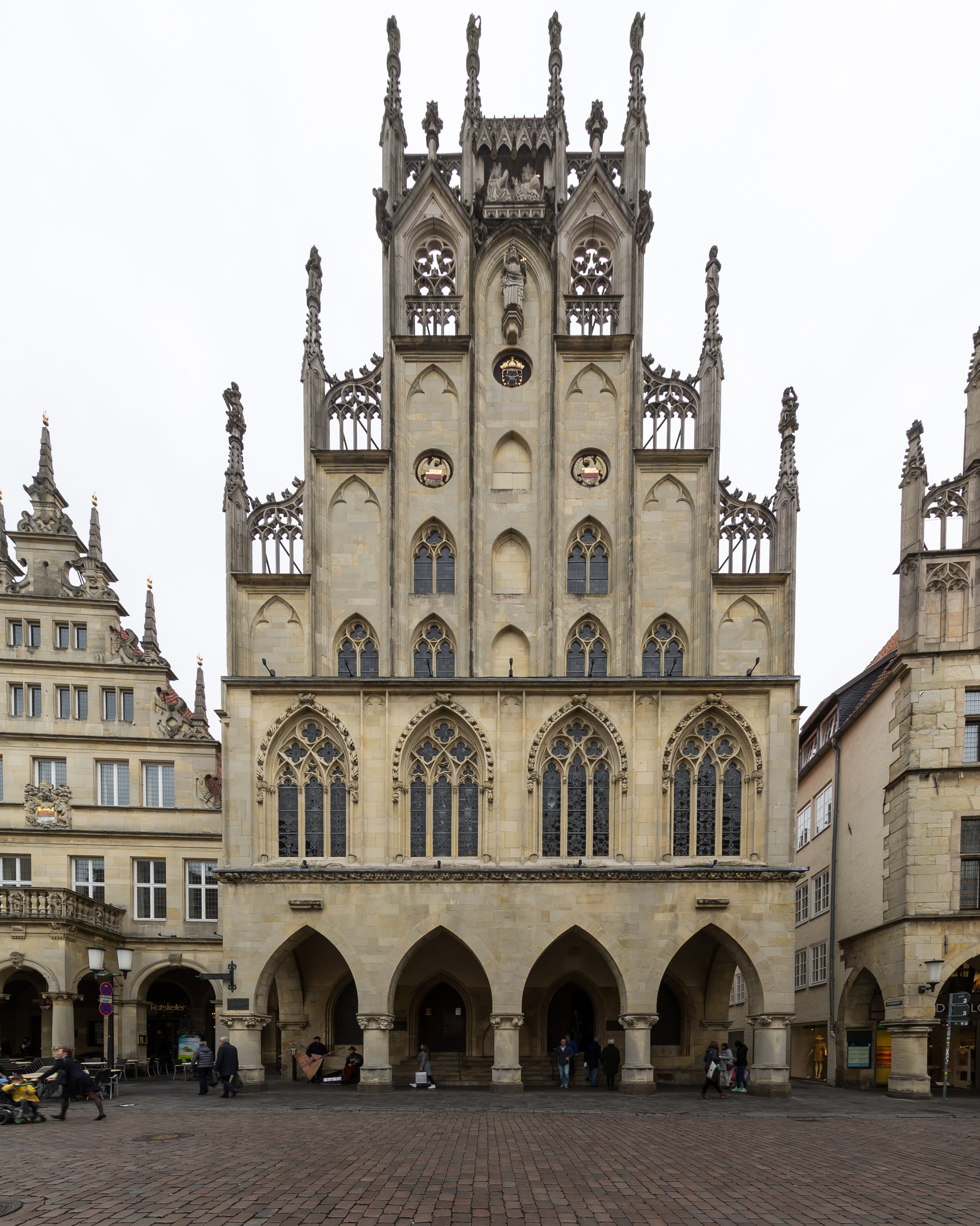 Historical City Hall, Münster, North Rhine-Westphalia, Germany This image shows a heritage building in Germany, located in the North Rhine-Westphalian city Münster.